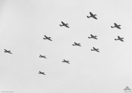 Spitfire fighters from No. 451 Squadron RAAF during an escort mission in May 1945